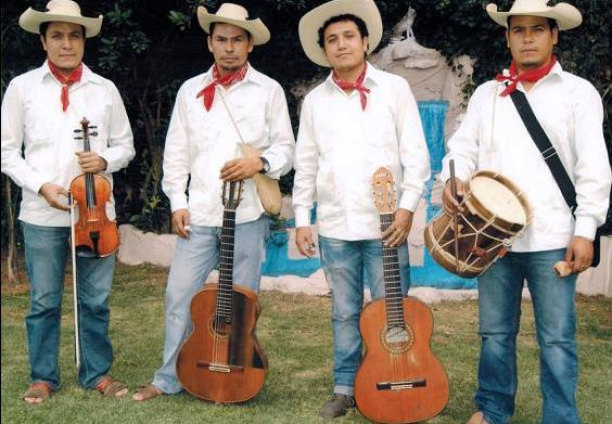 Mexican folk group